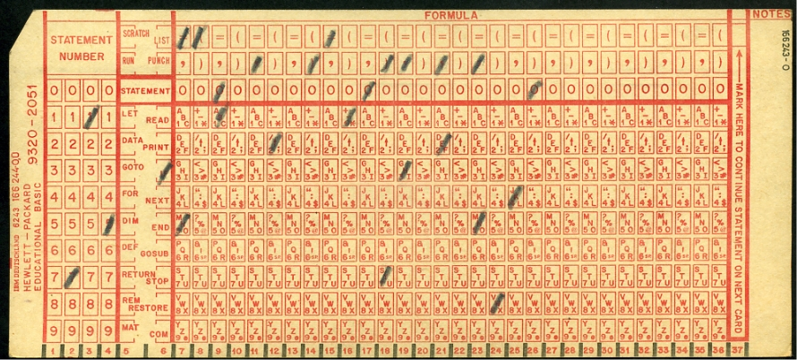 HP Educational Basic optical mark-reader card. Godfrey Manning.